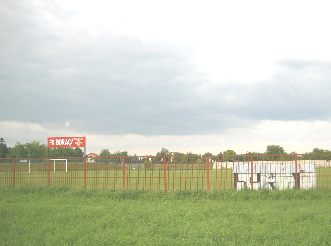 FK Borac football stadium in Klisa neighborhood in Novi Sad.